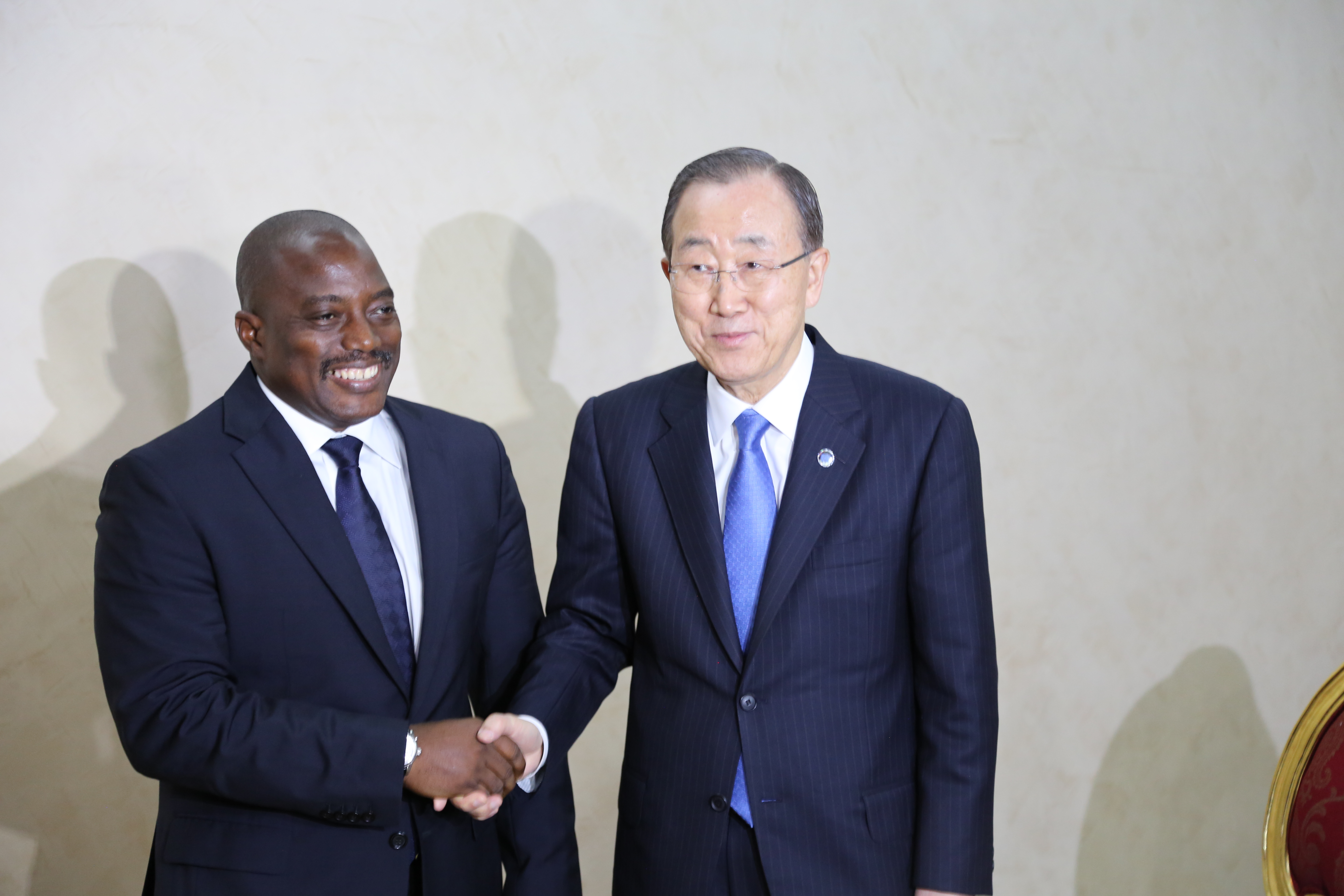 UN Secretary General,Mr Ban Ki Moon in a pose with HE Joseph Kabila Kabange,President of DRC.